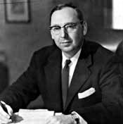 Watkins Moorman Abbitt, US Representative from Virginia